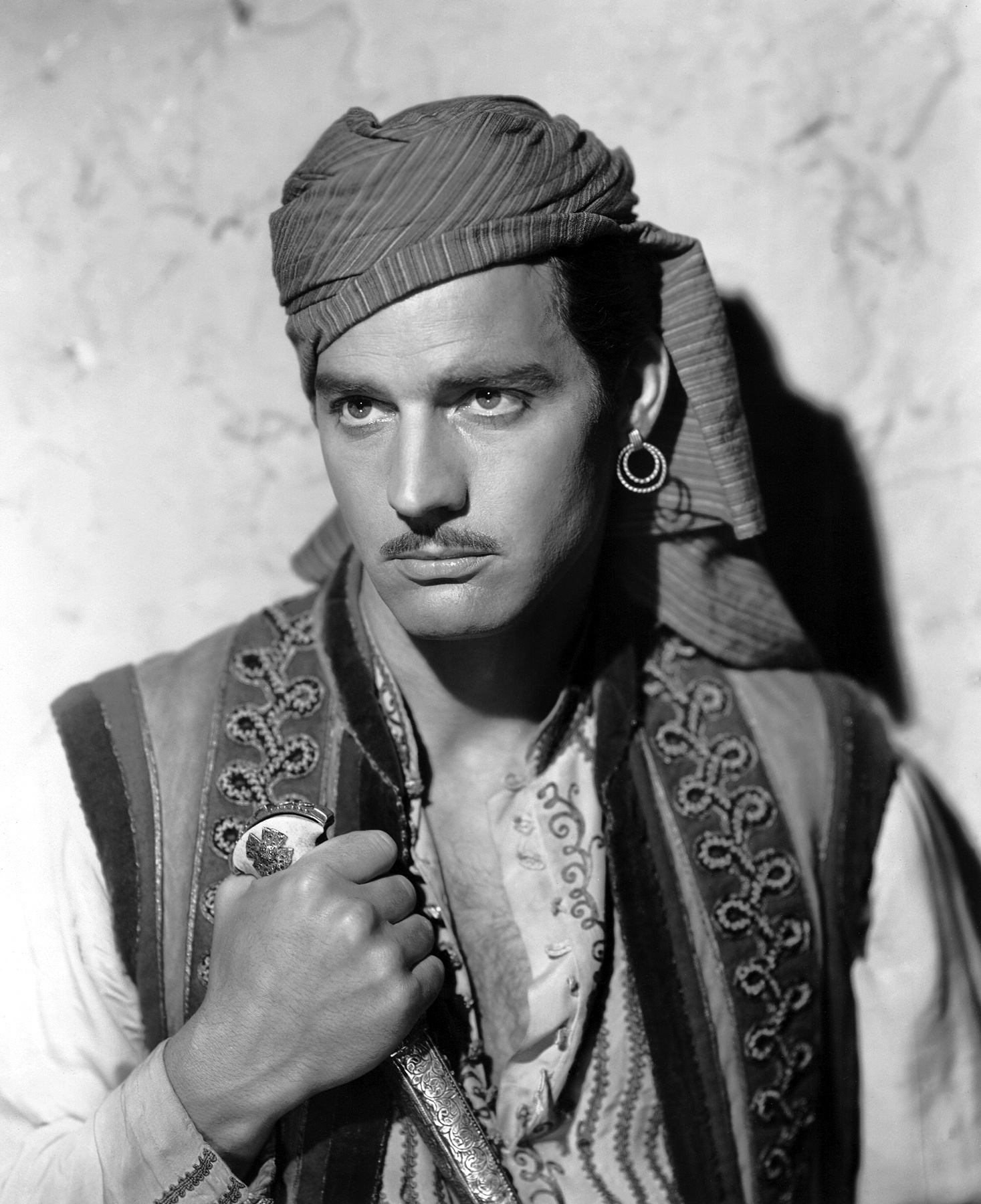 Paul Hubschmid (aka Paul Christian) in Bagdad - publicity still